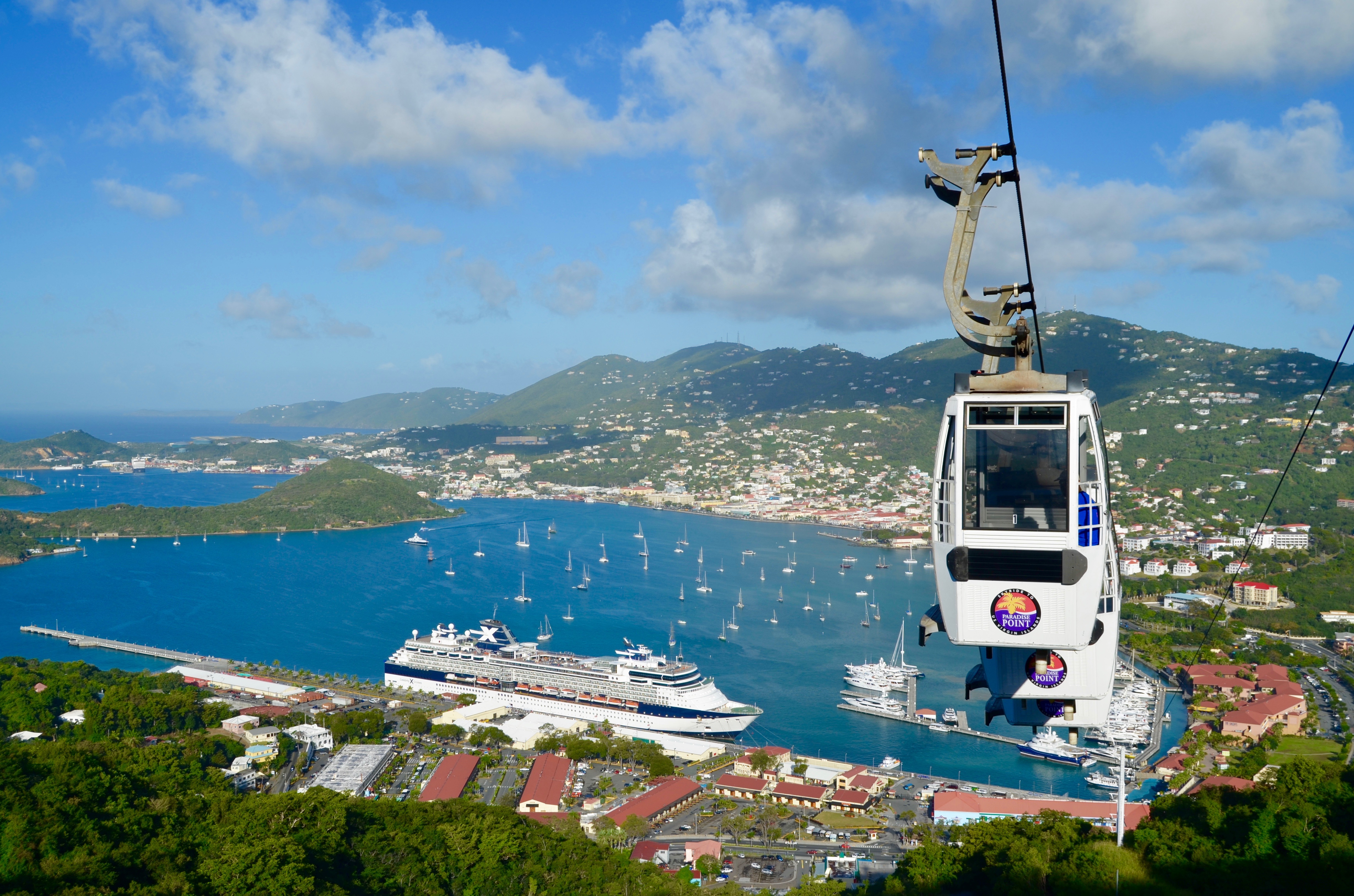 View of Charlotte Amalie, the capital of the United States Virgin Islands, located on the island of Saint Thomas. Viewed from Paradise Point east of Havensite.